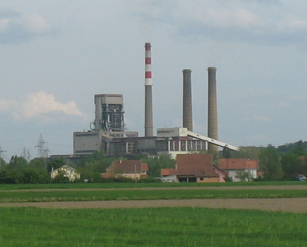 TPP Kolubara A in Veliki Crljeni (viewed from Ibarska magistrala), Lazarevac municipality,Serbia.